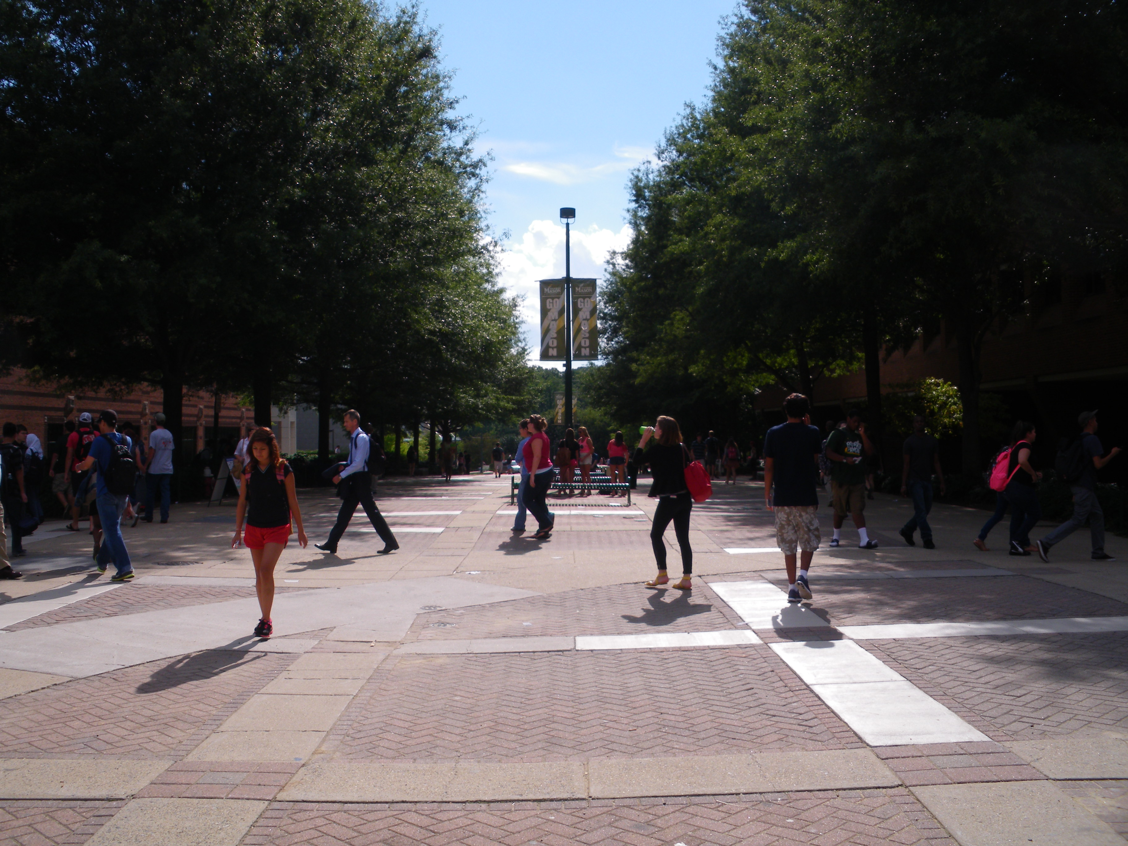 George Mason University Fairfax Campus